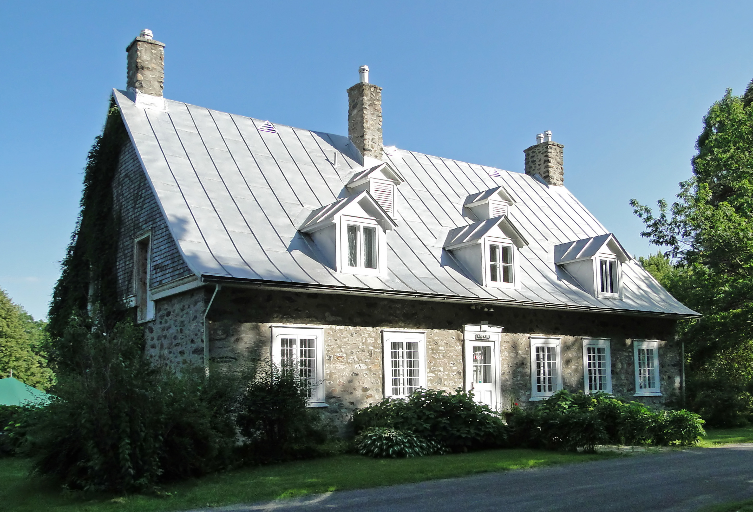 Old rectory of Batiscan (1816), Batiscan, Quebec, Canada